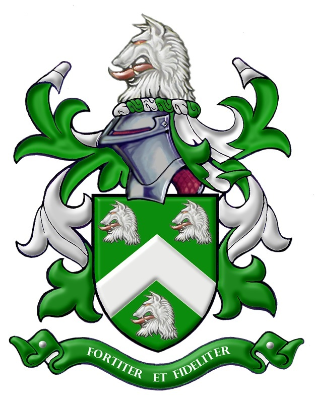 Rendition of Galway Tully Coat of Arms by Pursuviant Andrew Tully